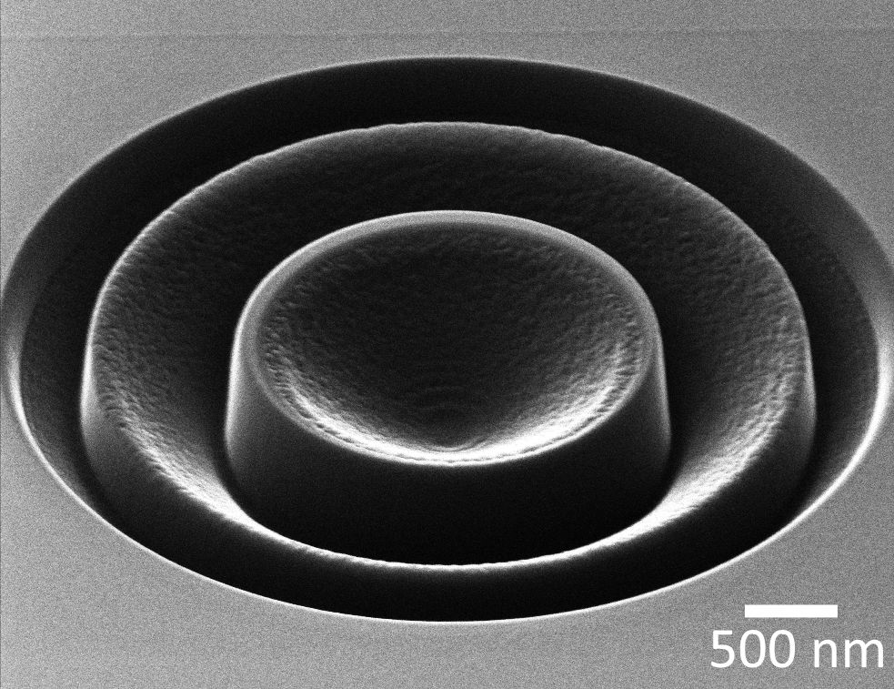 Electron microscope image of a mold used for the fabrication of a diffractive microlens. The mold is fabricated using focused ion beam.